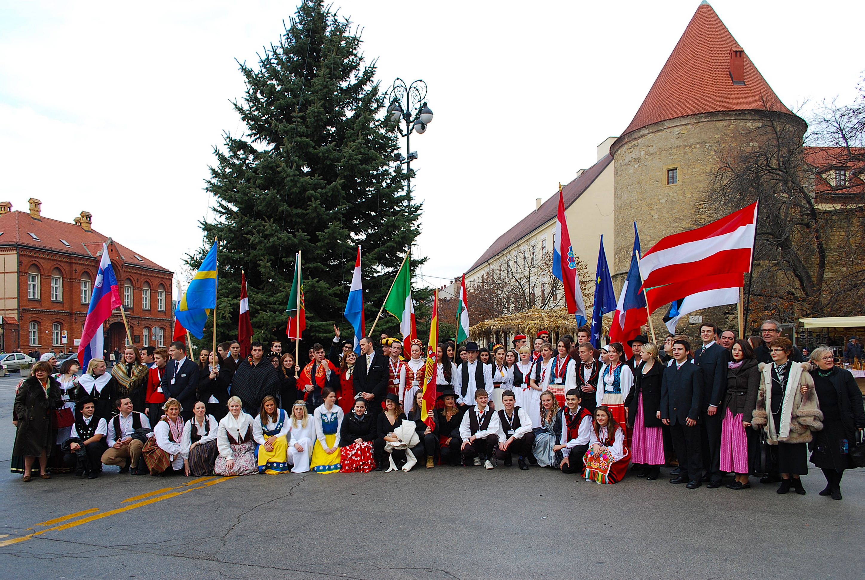 AEHT: Christmas in Europe 2011 in Zagreb